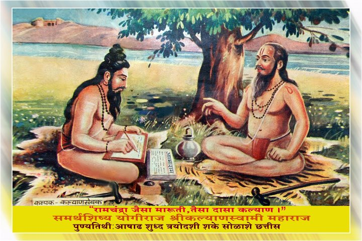 ramdas-kalyan